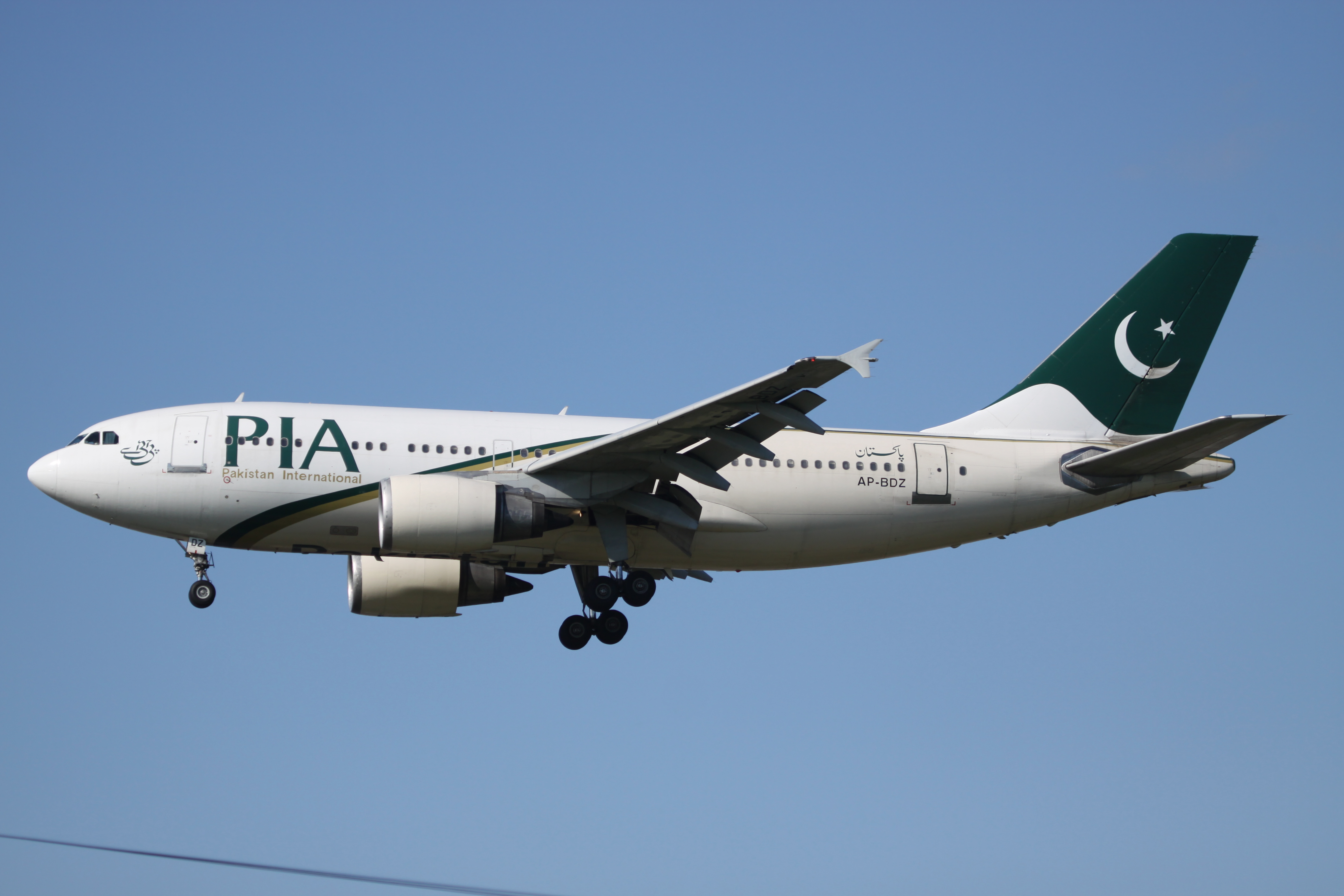 At London Heathrow